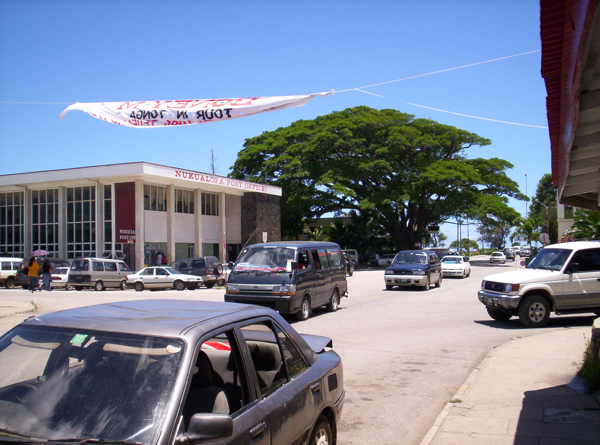 Downtown Nuku'alofa